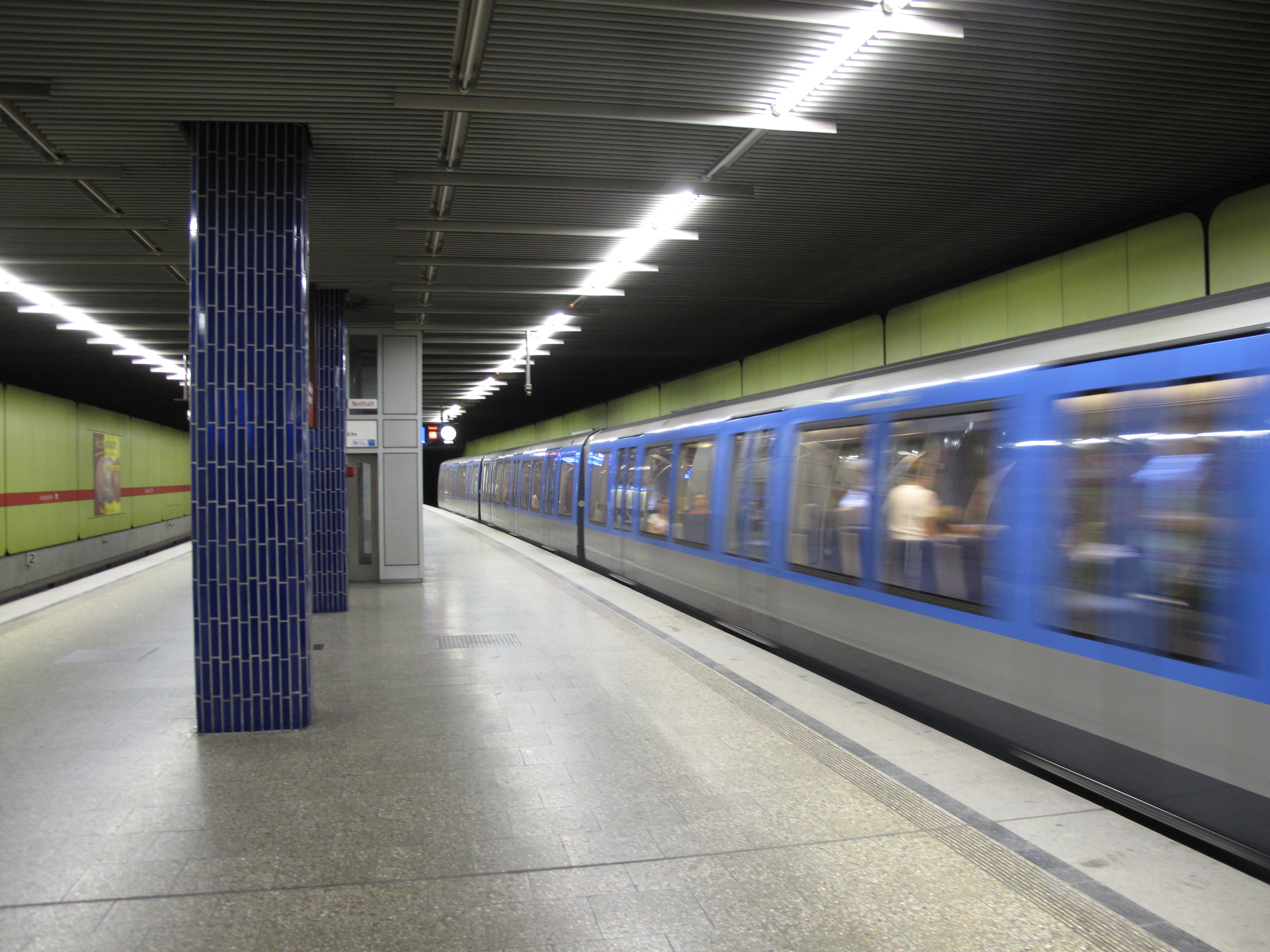 The subway-station "Josephsplatz" of the subway line U2 in Munich (Maxvorstadt).